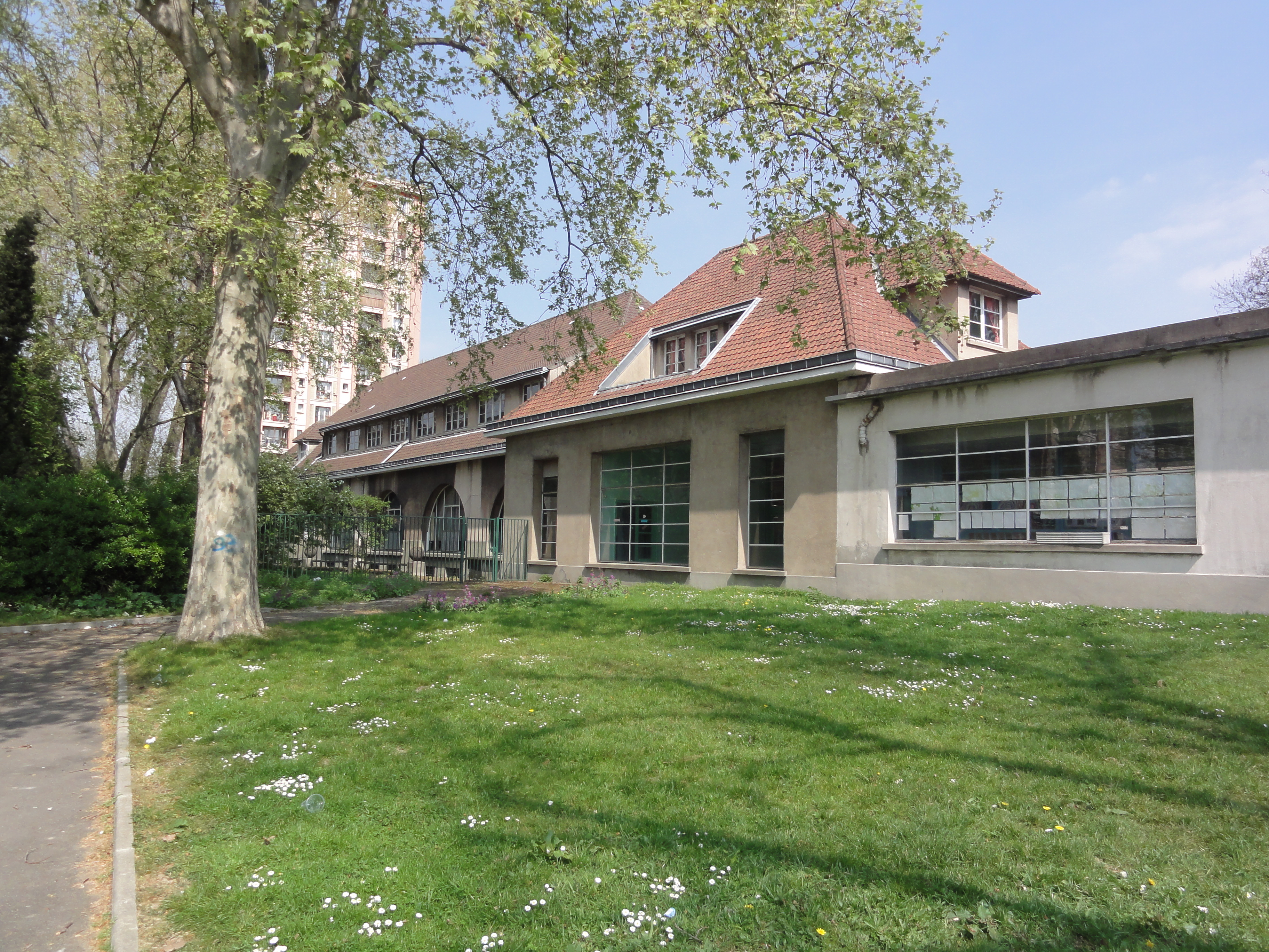 Pantin, groupe scolaire 30 Rue Méhul, PA93000005